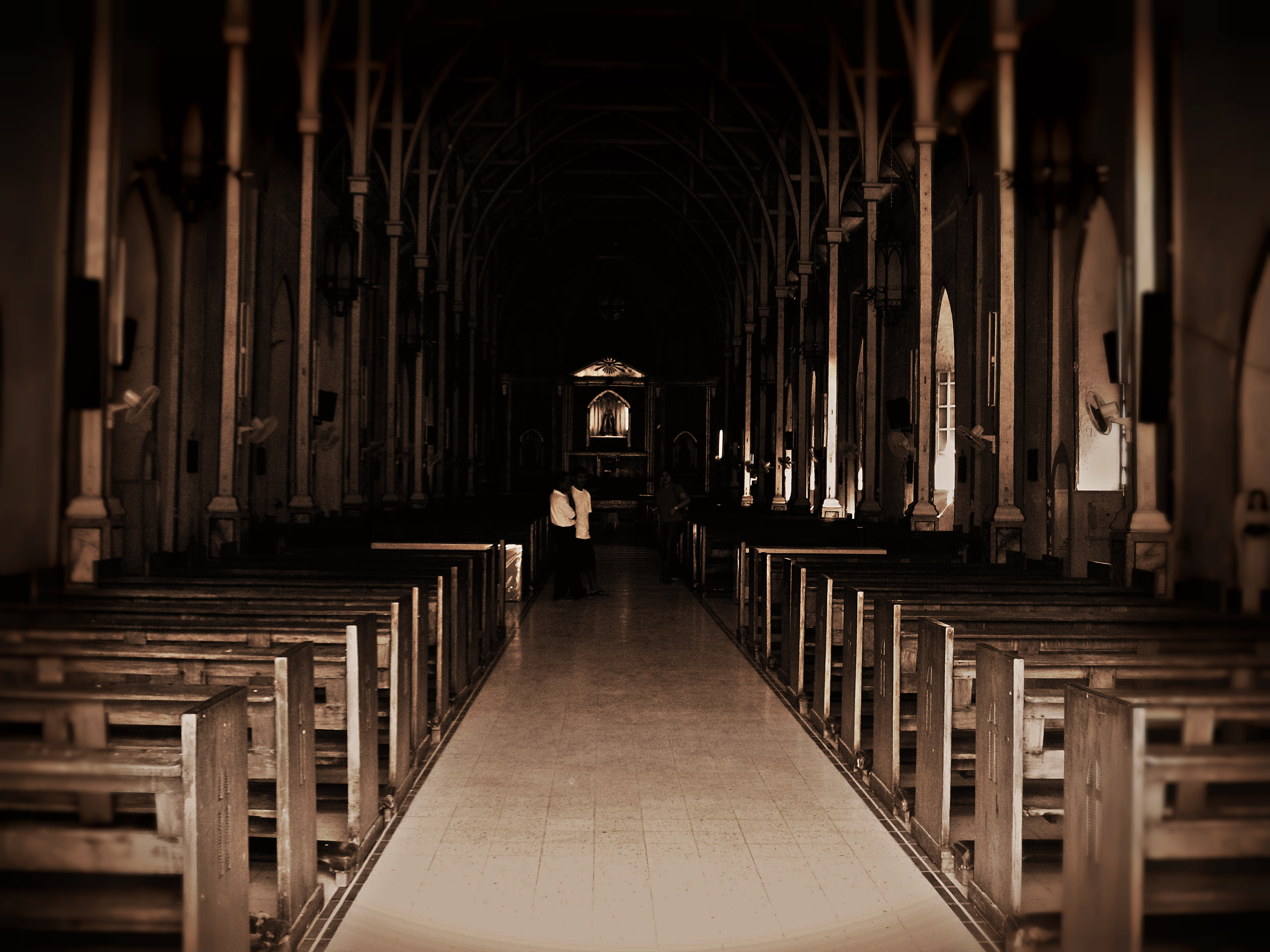 Interior of San Agustin Church in Bantay, Ilocos Sur, Philippines